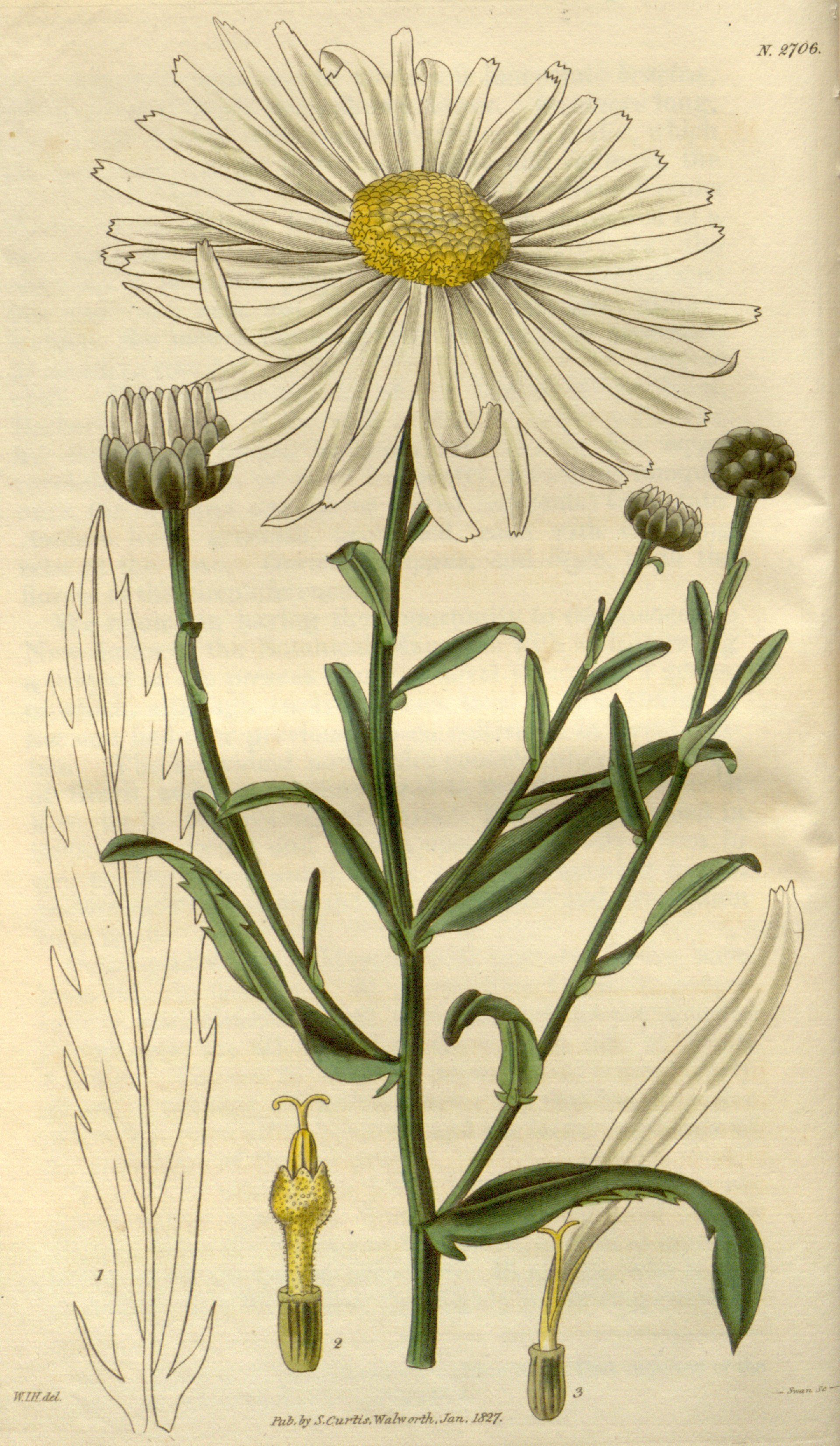 Leucanthemella serotina (L.) Tzvelev - Giantdaisy, Giant daisy, High daisy, Autumn ox-eye - as Chrysanthemum uliginosum (Waldst. & Kit. ex Willd.) Pers. [as Pyrethrum uliginosum Willd.]